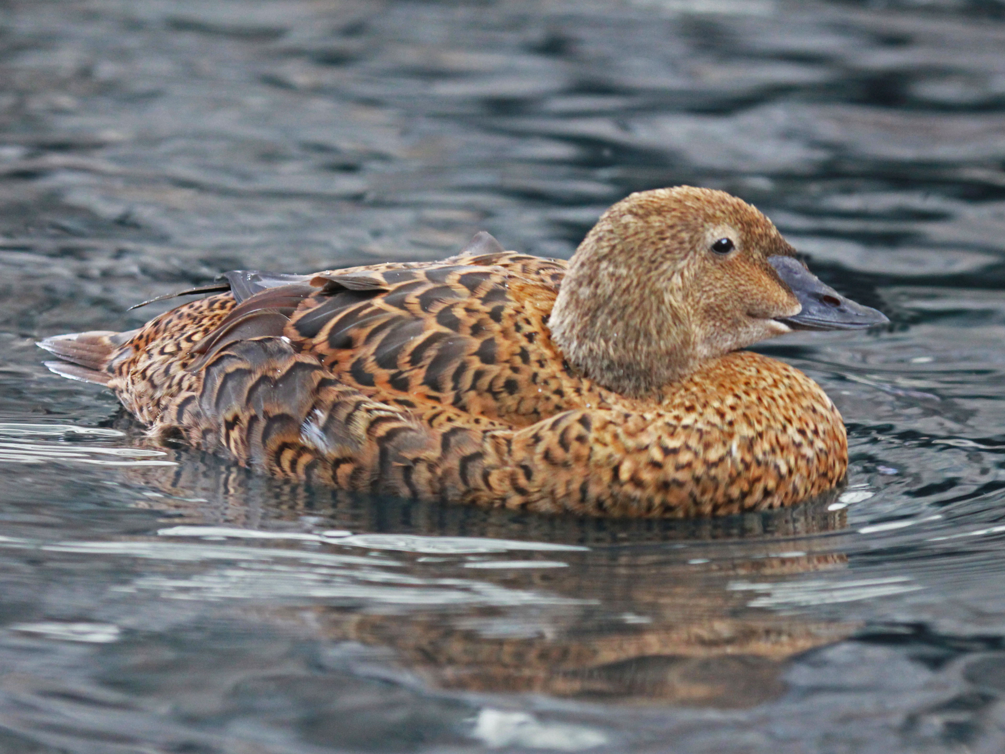 Female King Eider (Somateria spectabilis) at Alaska Sea Life Center in Seward, Alaska